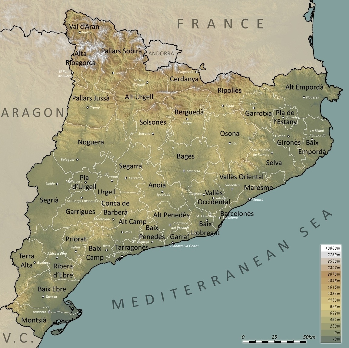 Comarcal map of Catalonia. Created by Hansen.